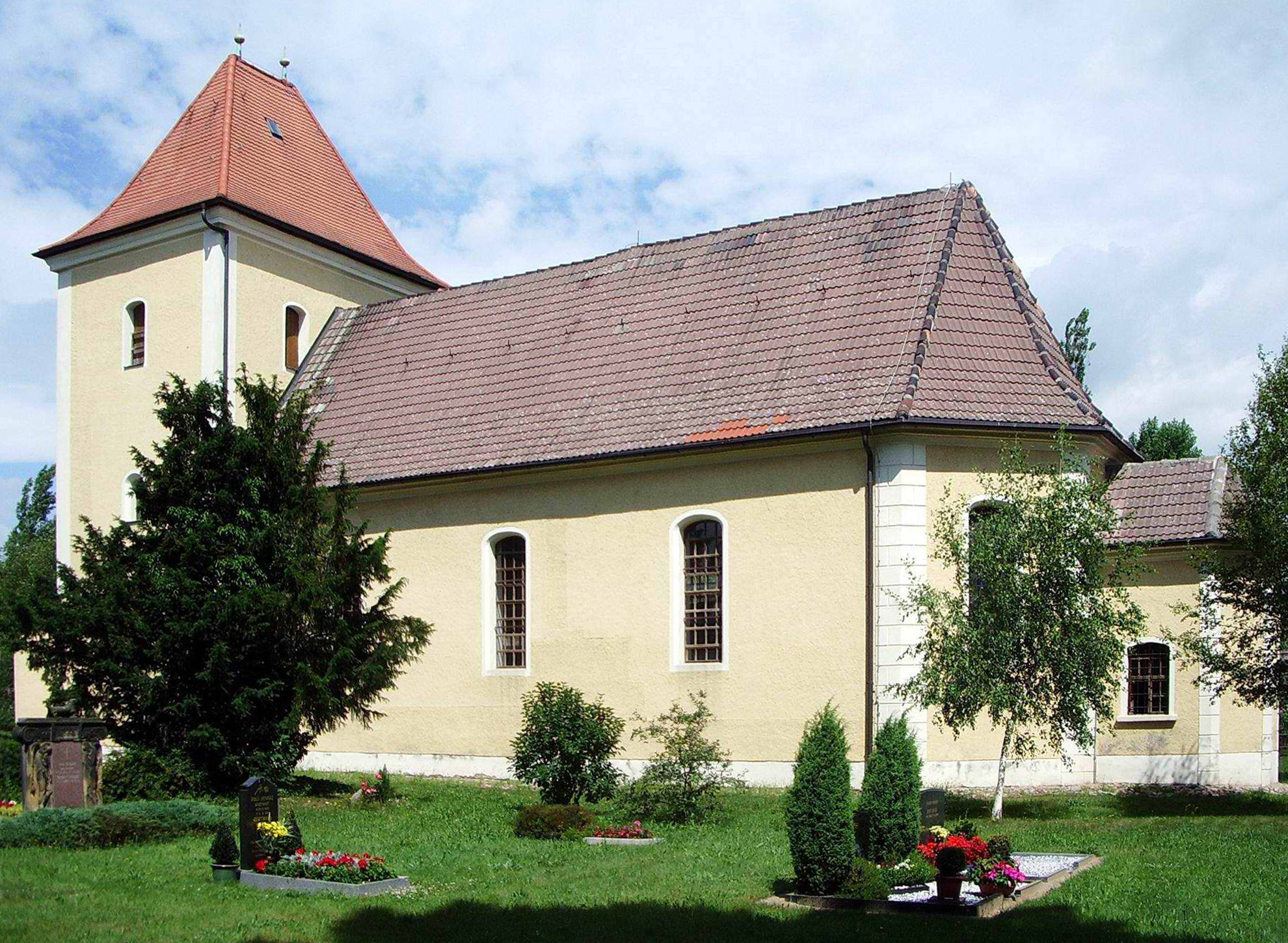 lutherian church in Hohenheida near Leipzig (2006)